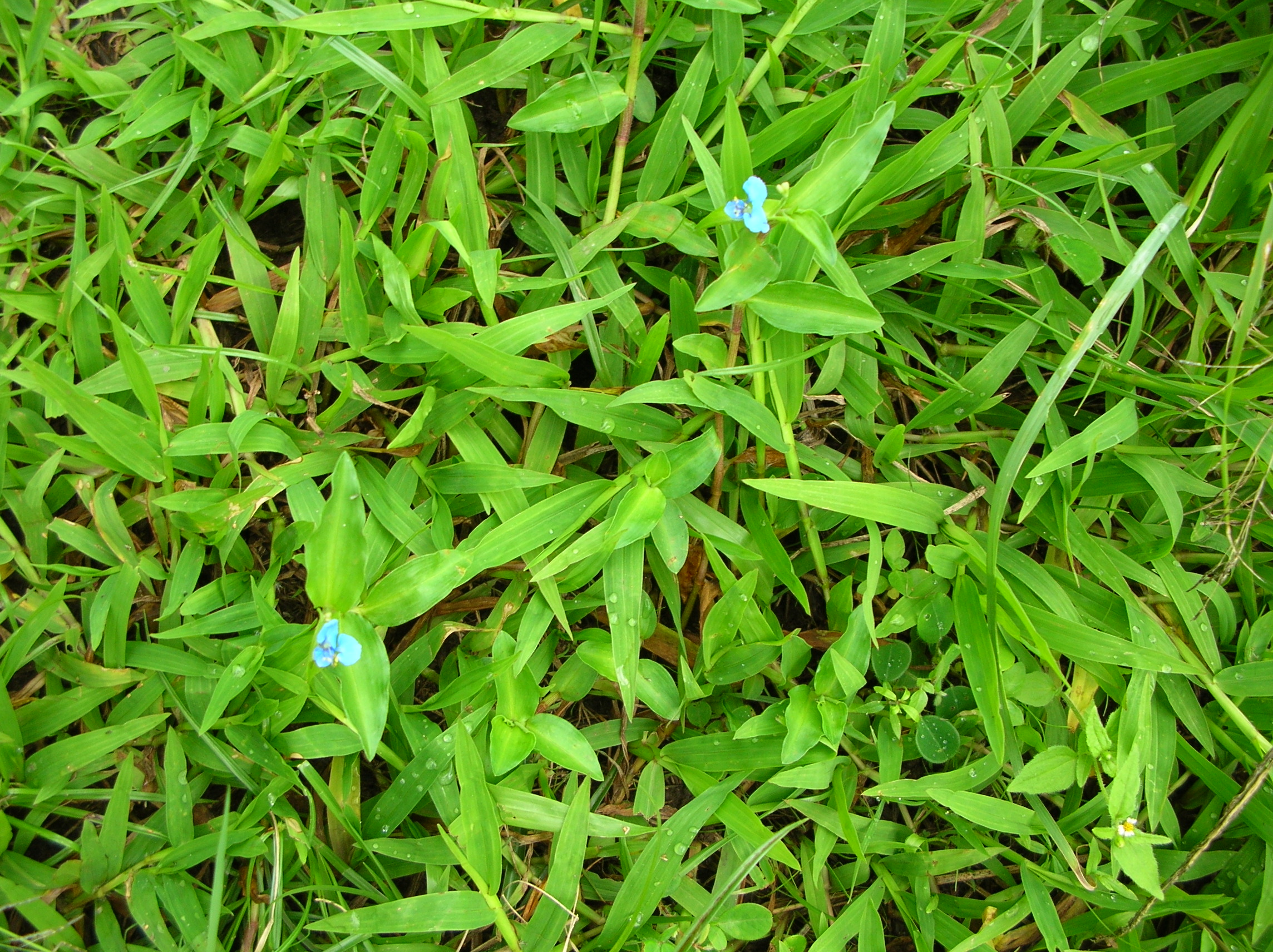 Commelina diffusa (habit). Location: Maui, Hana Hwy